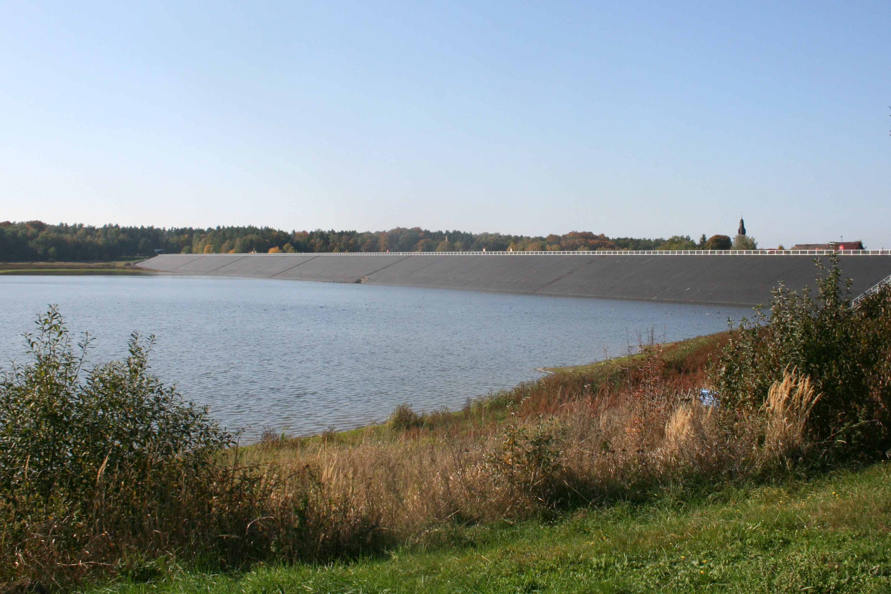 Schömbach dam